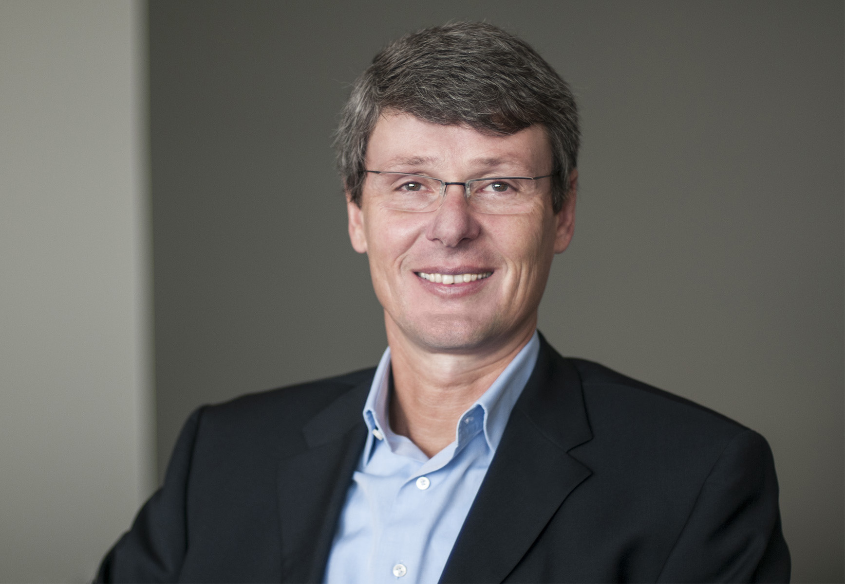 A headshot of Thorsten Heins